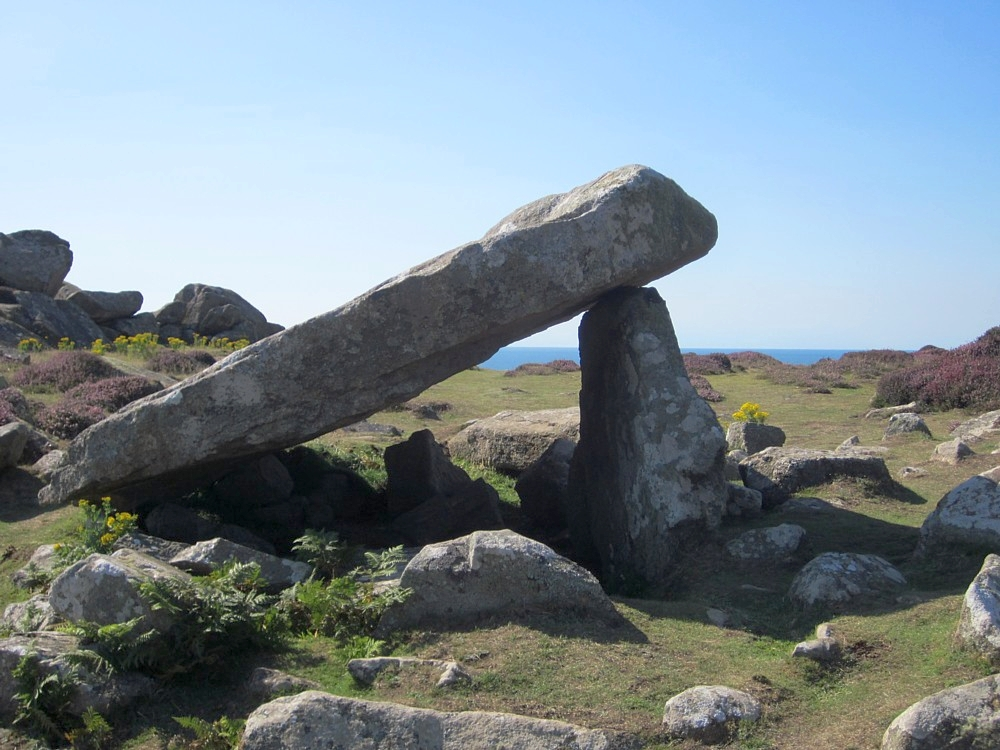 Arthur's Quoit St David's Head Pembrokeshire UK